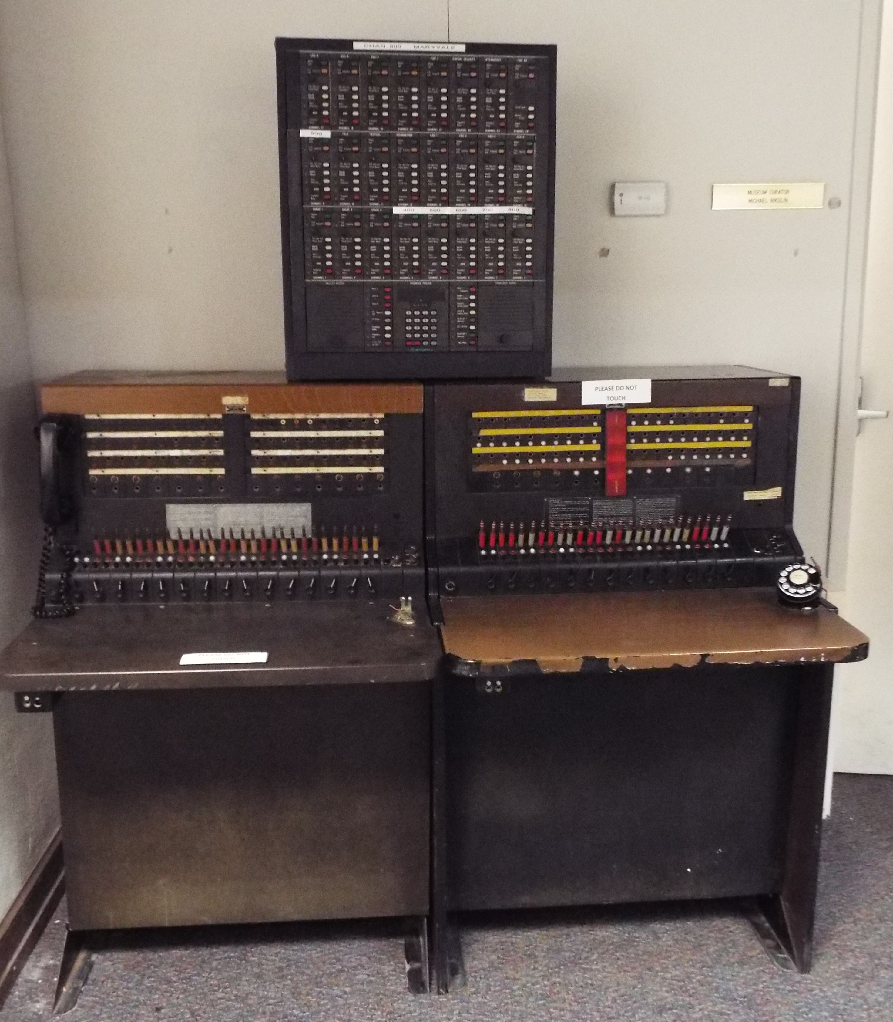 Early Phoenix police switchboard on display in the Phoenix Police Museum